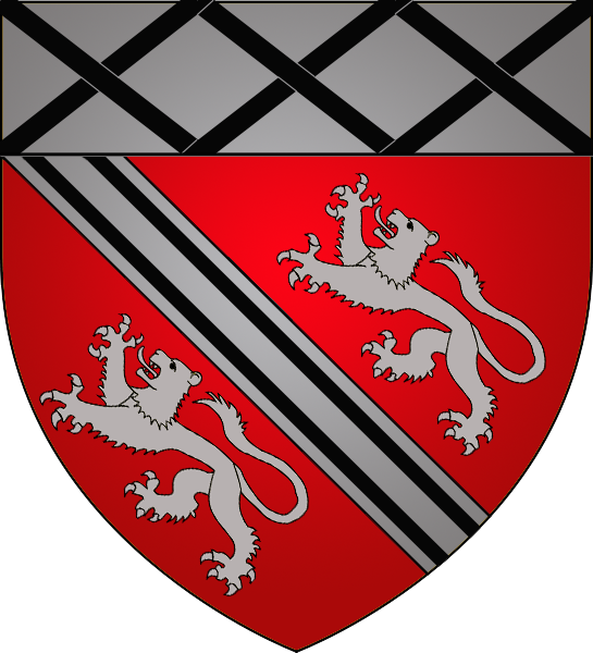 Coat of arms of the municipality of Koerich, Luxembourg